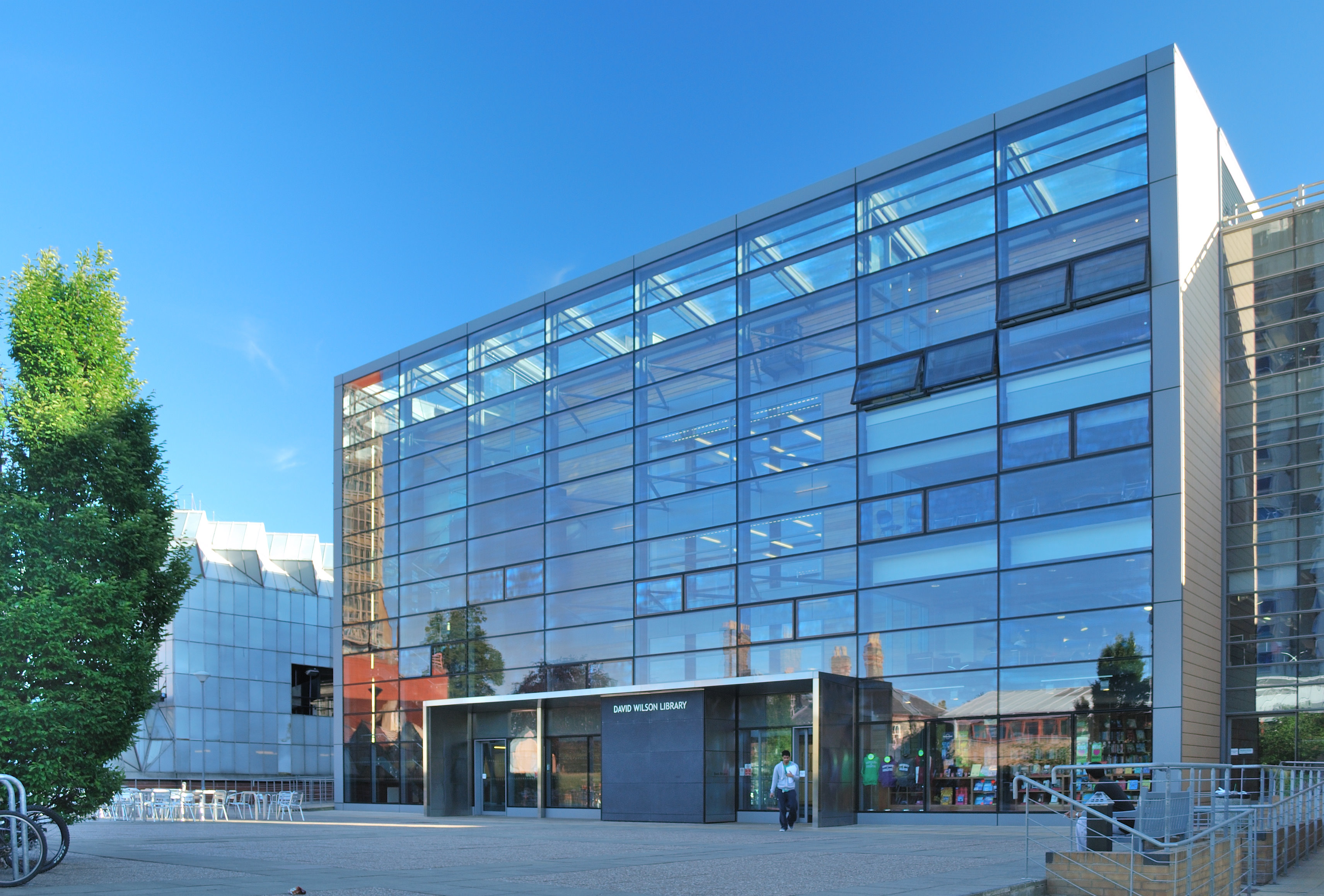 David Wilson Library at the University of Leicester